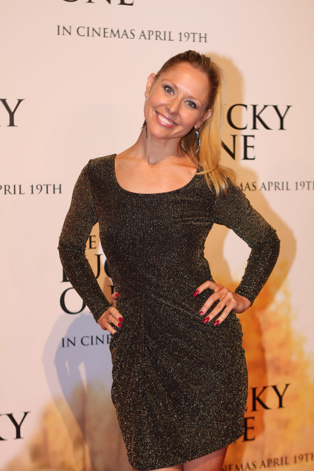 The Lucky One World Premiere At Bondi Juction, Sydney, Australia